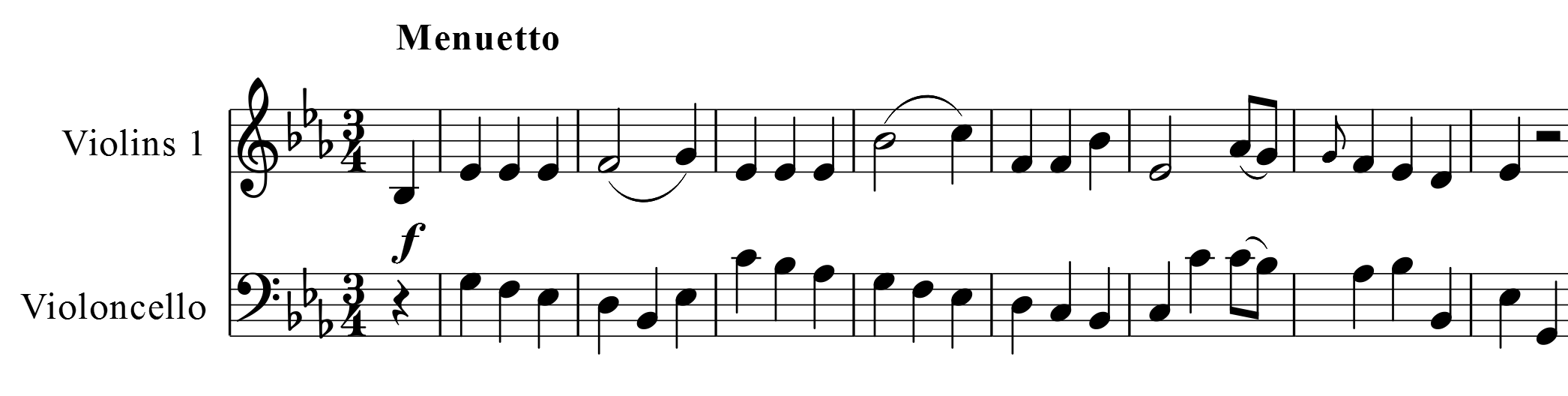 Joseph Haydn, Symphony No. 43, third movement, bar 1-8